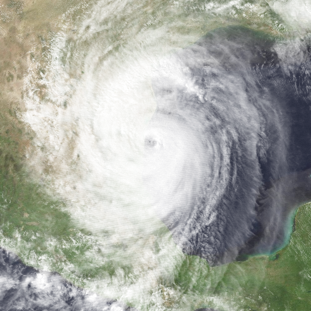 Hurricane Gilbert making landfall on the coast of Mexico near La Pesca, Tamaulipas as a strong Category 3 hurricane late on September 16, 1988